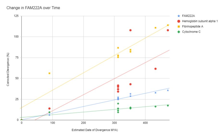 Comparison of FAM222A's rate of evolution with other common human proteins.